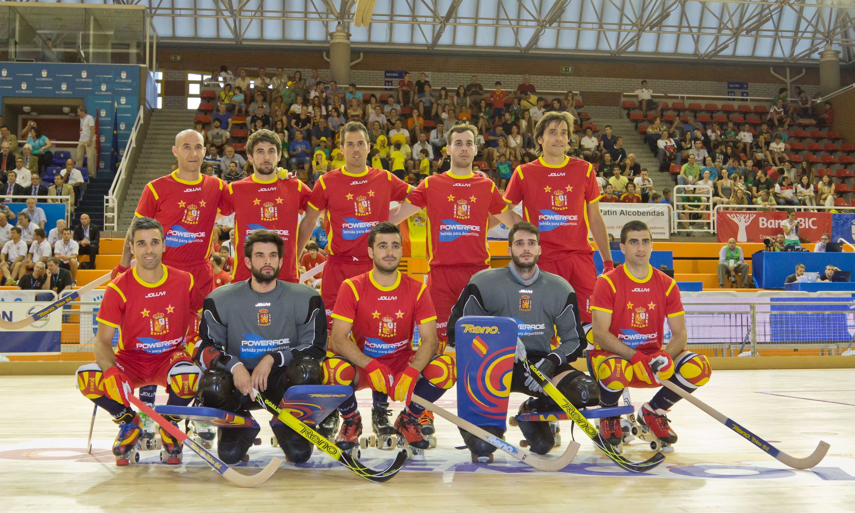 Spain national roller hockey team in 2014 CERH Championship.